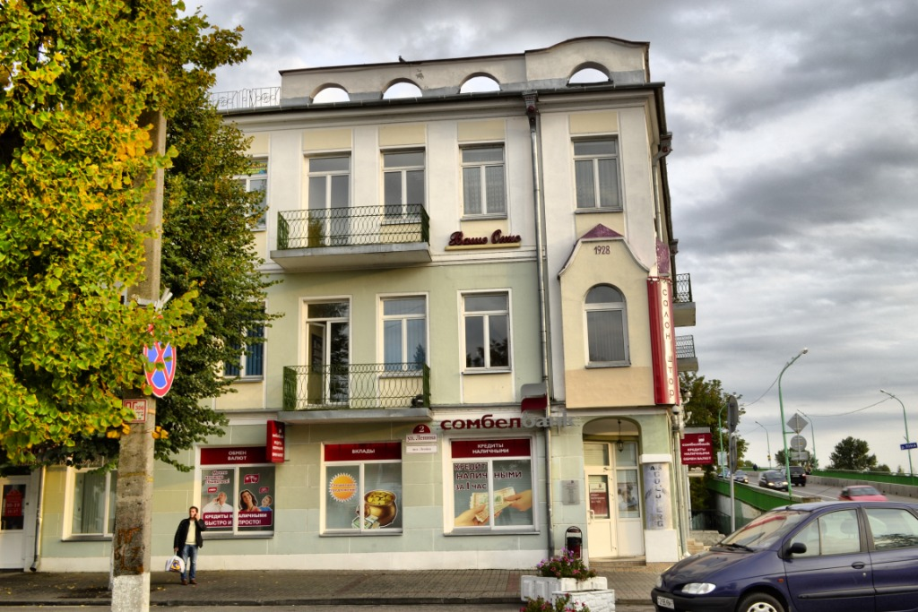 Беларуская (тарашкевіца): Будынак. г. Пінск This is a photo of Belarusian heritage monument. Reference number: 113Г000537 ( WLM)